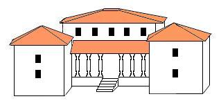 Schematic image of a roman Porticus Villa